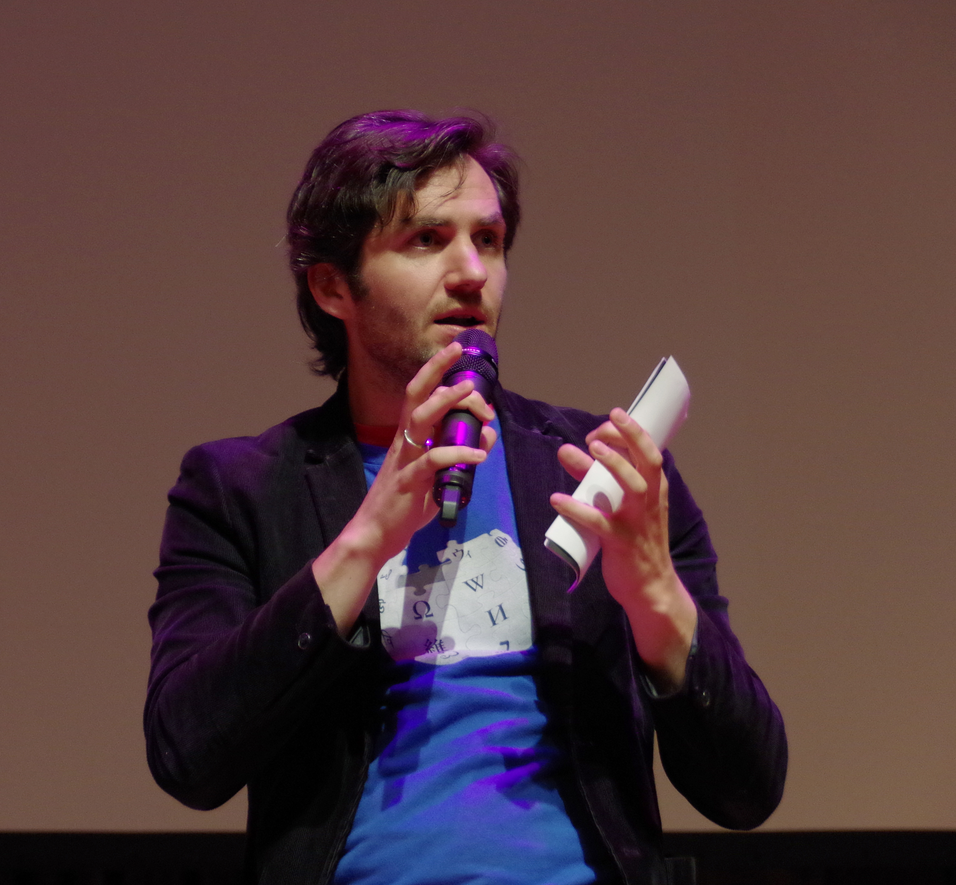 Lieven Scheire, the funniest man in Belgium, does stand-up comedy for the Wikimania 2014 attendees.